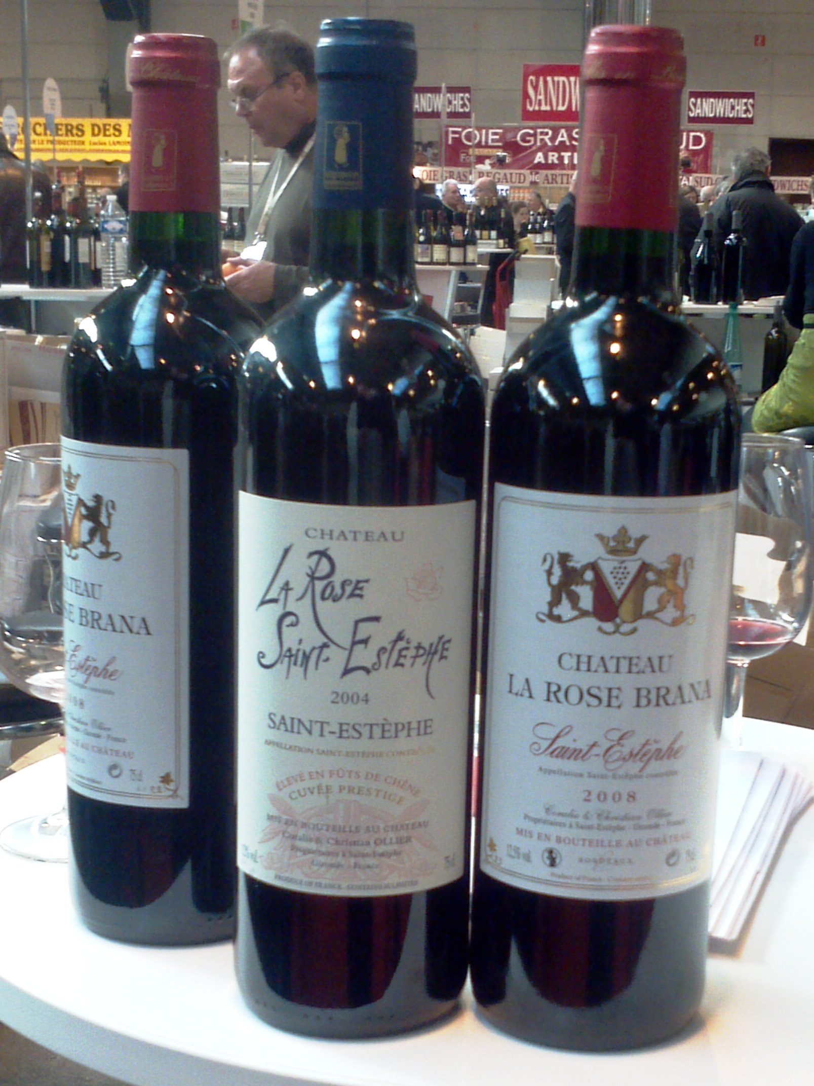 Bottles from Château La Rose Brana at wine fair, Strassbourg 2012